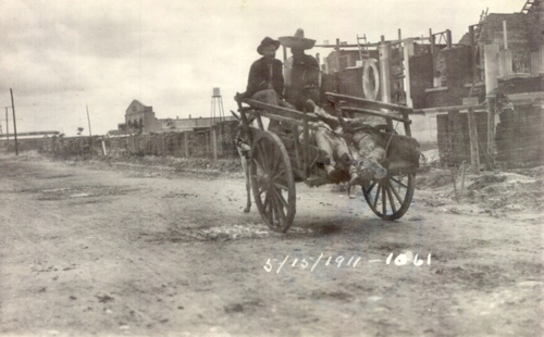 Human cost. Corpses after the armed confrontation on the May 15, 1911.